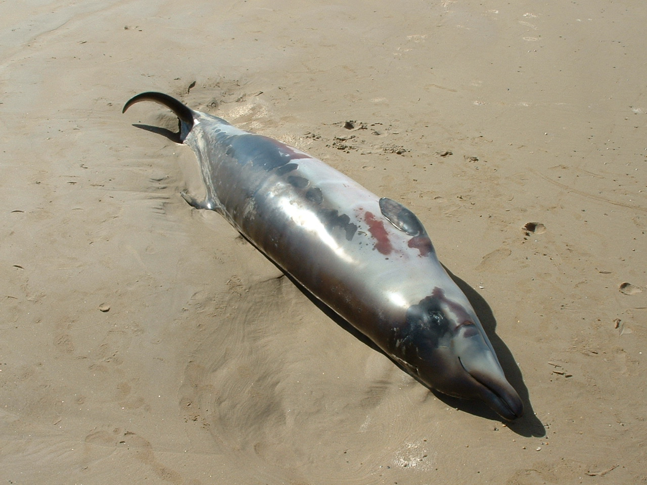 A neonatal Andrews' Beaked Whale beachwashed and newly deceased at Ocean Beach, near Strahan, Tasmania. The identity was established by DNA analysis.